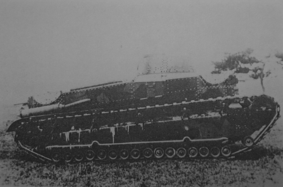 Imperial Japanese Army Experimental tank No.1, Improved model.